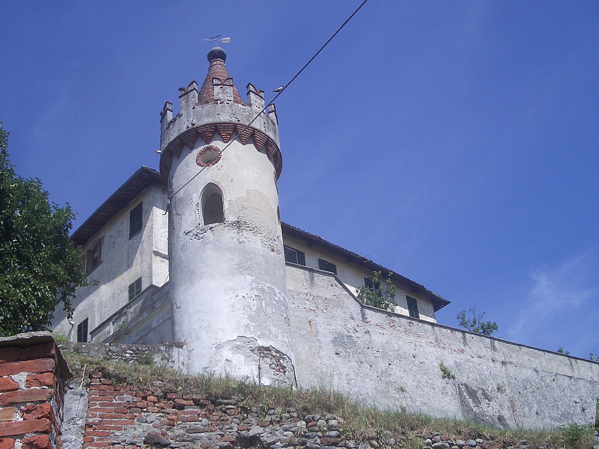 Albiano d'Ivrea, the Bishop's Castle